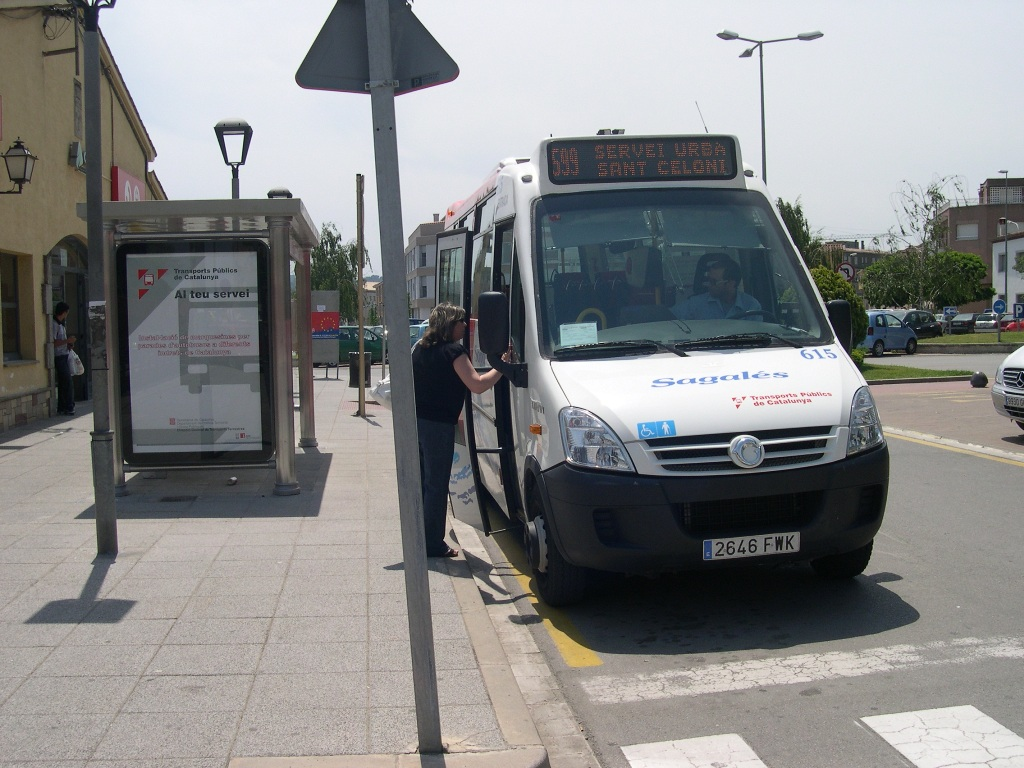 Irisbus Daily urban bus of Sant Celoni (Catalonia, Spain).